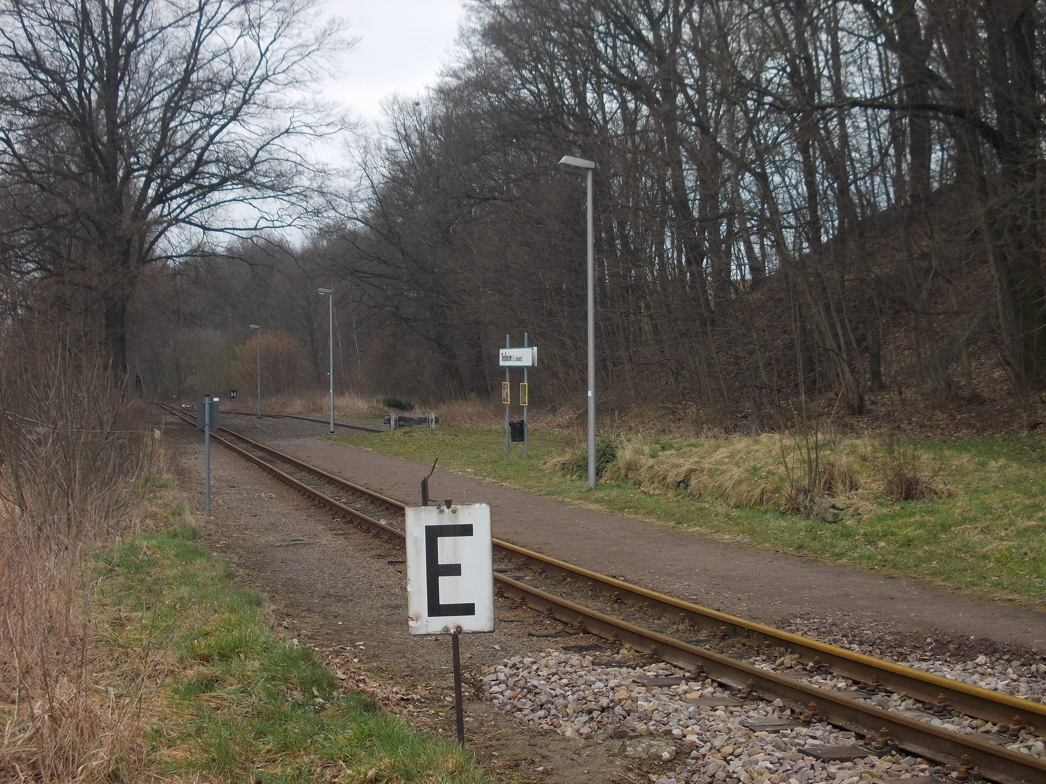 Thalheim train station (Oschatz, Nordsachsen district, Saxony)